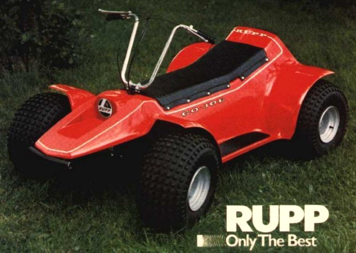 Original advertisement for the Rupp Go-Joe, 1973.